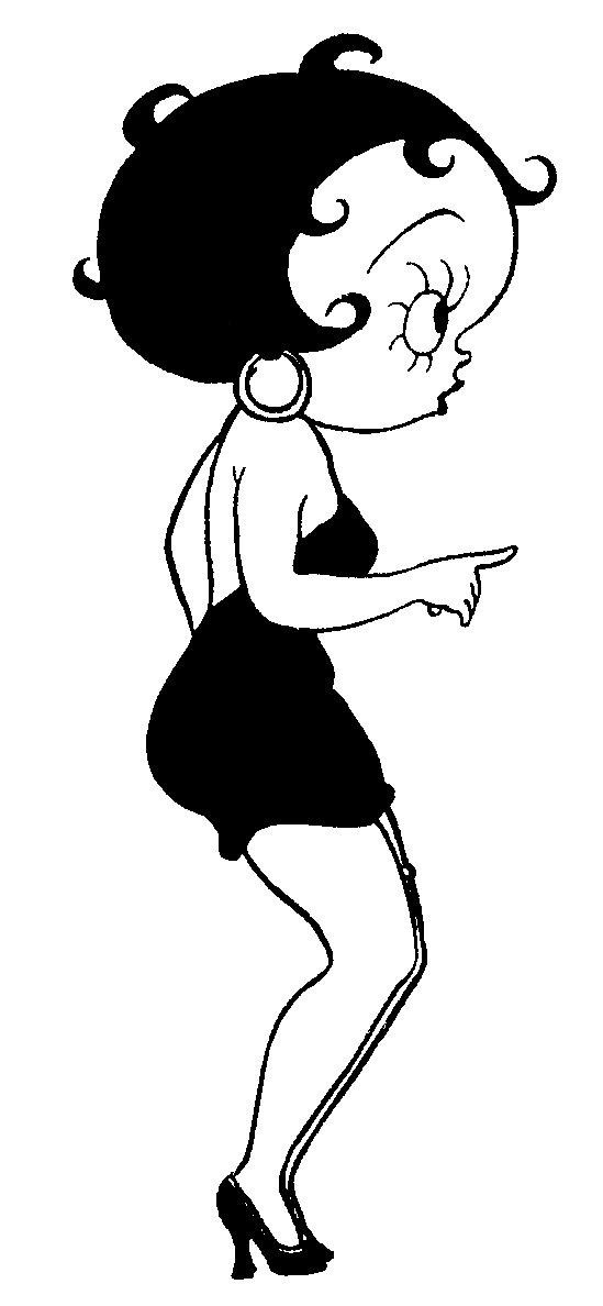 Here is a colored version of this drawing.Betty Boop character design, figure 2 from U.S. patent application D86224 "Design for a Doll or Similar Article"